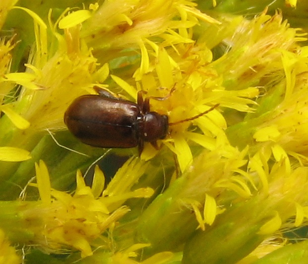 Flea beetle, Luperaltica nigripalpis, on goldenrod. Pennypack Ecological Restoration Trust, Montgomery County, Pennsylvania. USA.